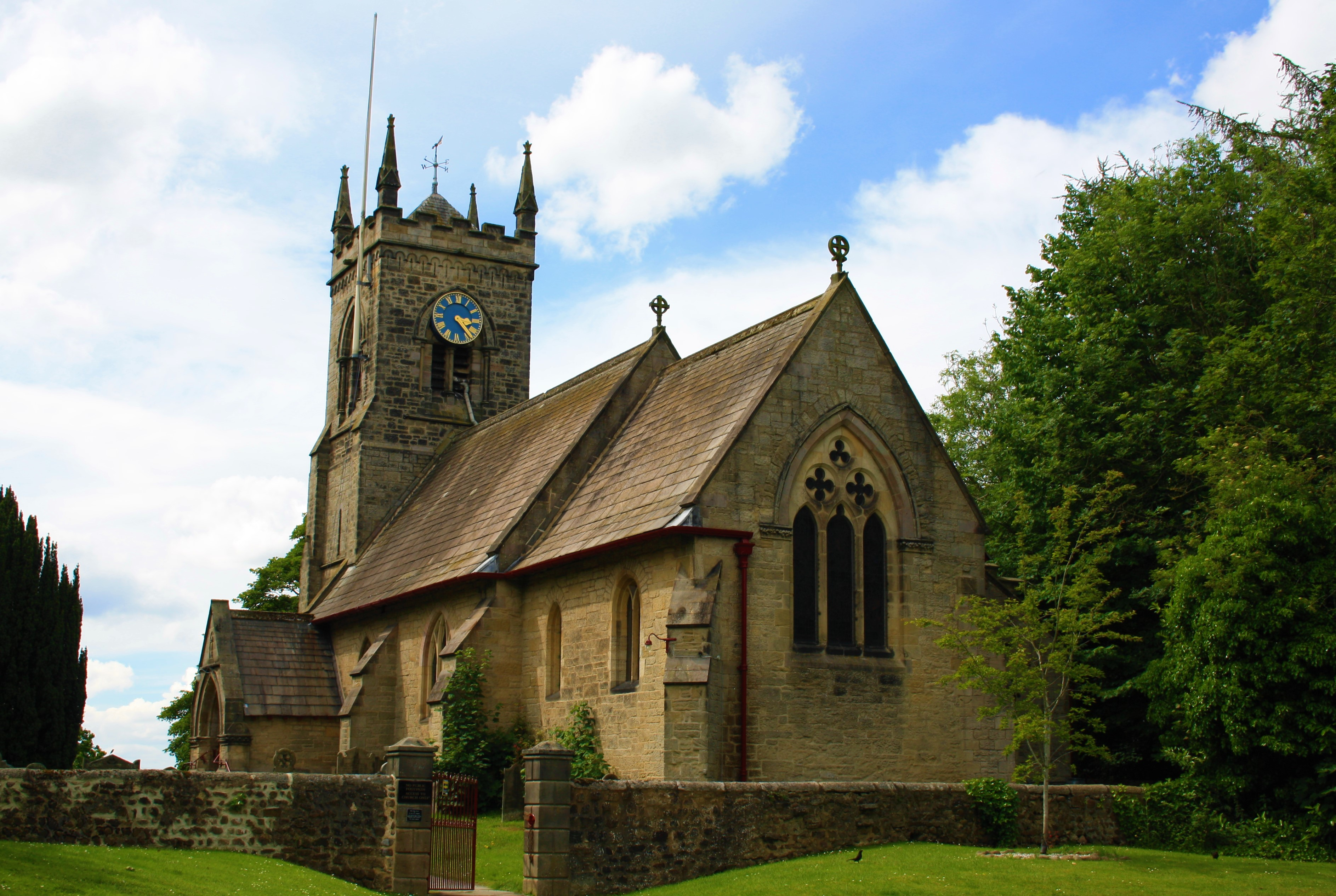 A Grade 2 listed church built in 1866 with possible 13th century features, St Paul & St Margaret owes its origin to the then owner of Nidd Hall, to which it is adjacent.